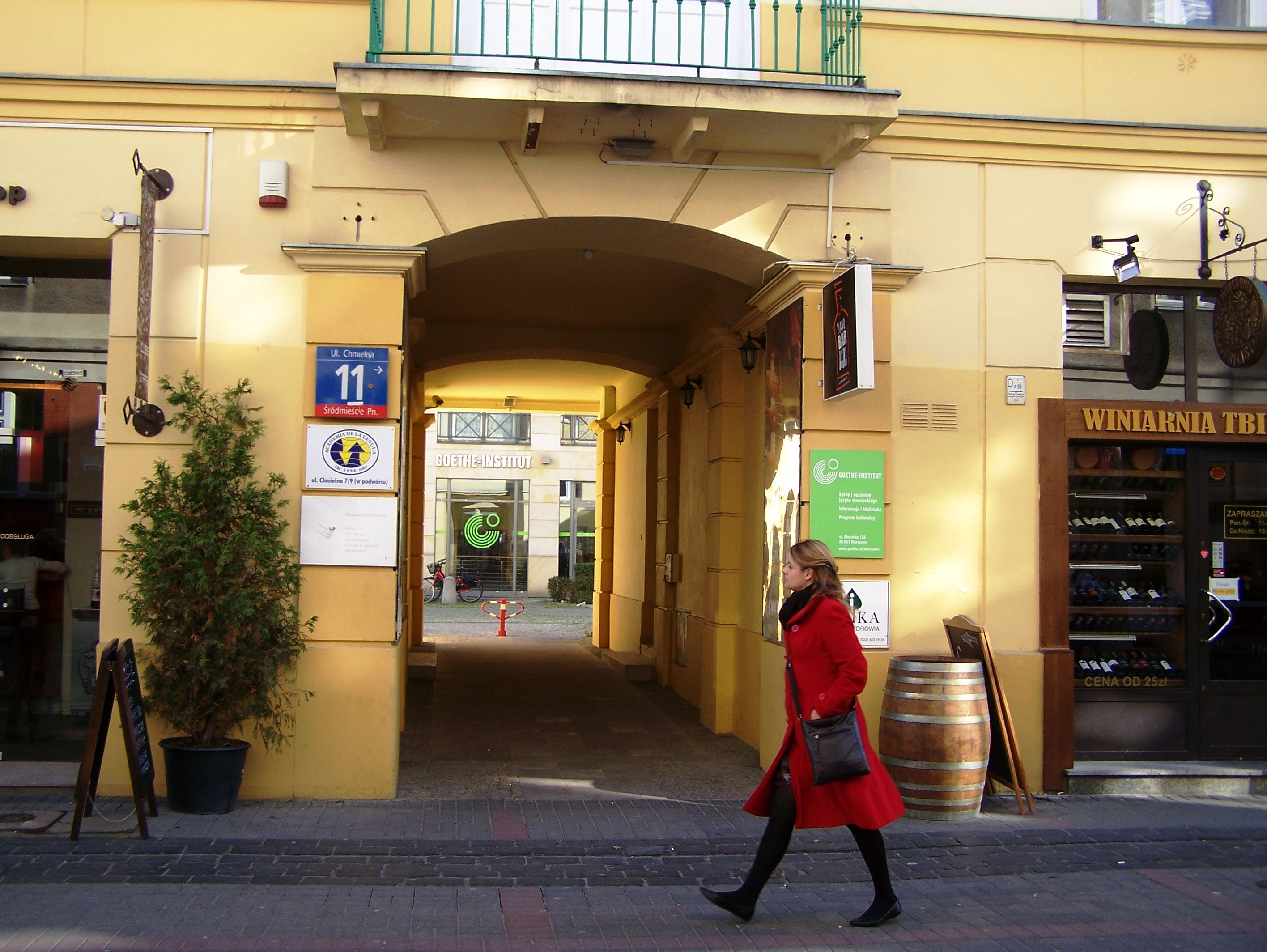 View to the Goethe Institute of Warsaw, Poland